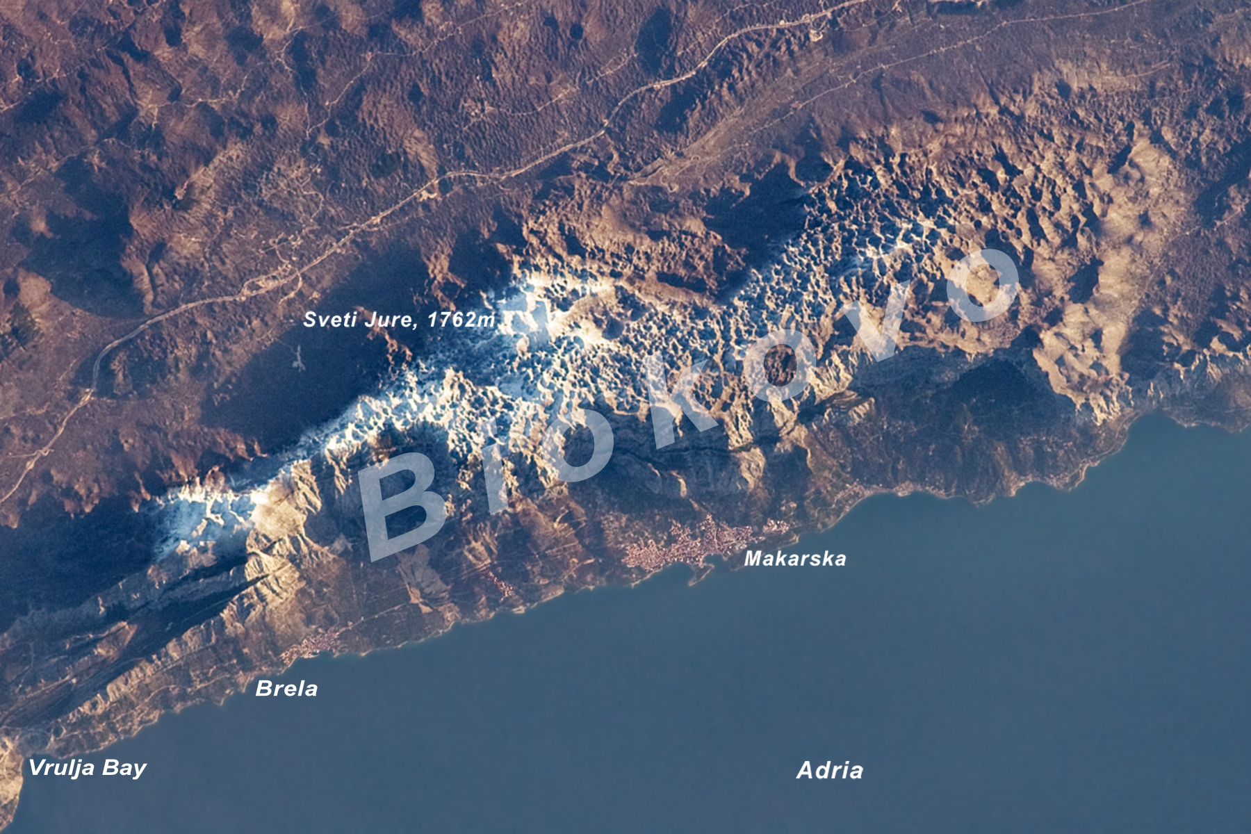 The photo shows Biokovo, the south-croatian coastal mountain range of the 800 km long Dinaric Alps (Dinarids). The stone beds of the Dinarids continue below the water level of the Adriatic Sea; the Dinarids are deeply karstified all over. Well distinguishable are the cities Makarska and Brela and the “Vrulja Bay” (Croatic:vrulja